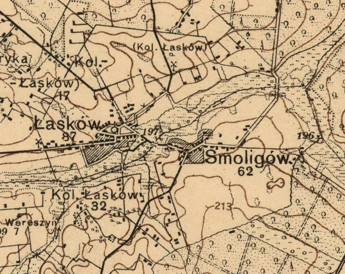 The village before The World War II